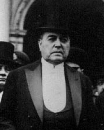 Hipólito Yrigoyen, president of Argentina